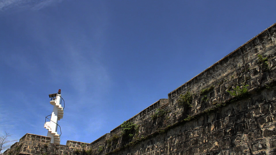 The walls of Fuerte de la Concepcion y del Triunfo Historical Landmark in Ozamiz City.